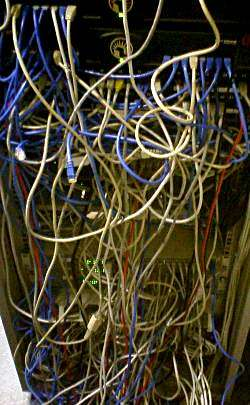 cable.spaghetti.jpg photoshopped for greater clarity cable.spaghetti.jpg, described as: This image has been released into the public domain by the author, or its copyright has expired. This applies worldwide. See Copyright. was downloaded by me, photoshopped to improve clarity, and re-uploaded. I hereby explicitly re-release the copy into the public domain. Dpbsmith 21:57, 25 Apr 2004 (UTC)